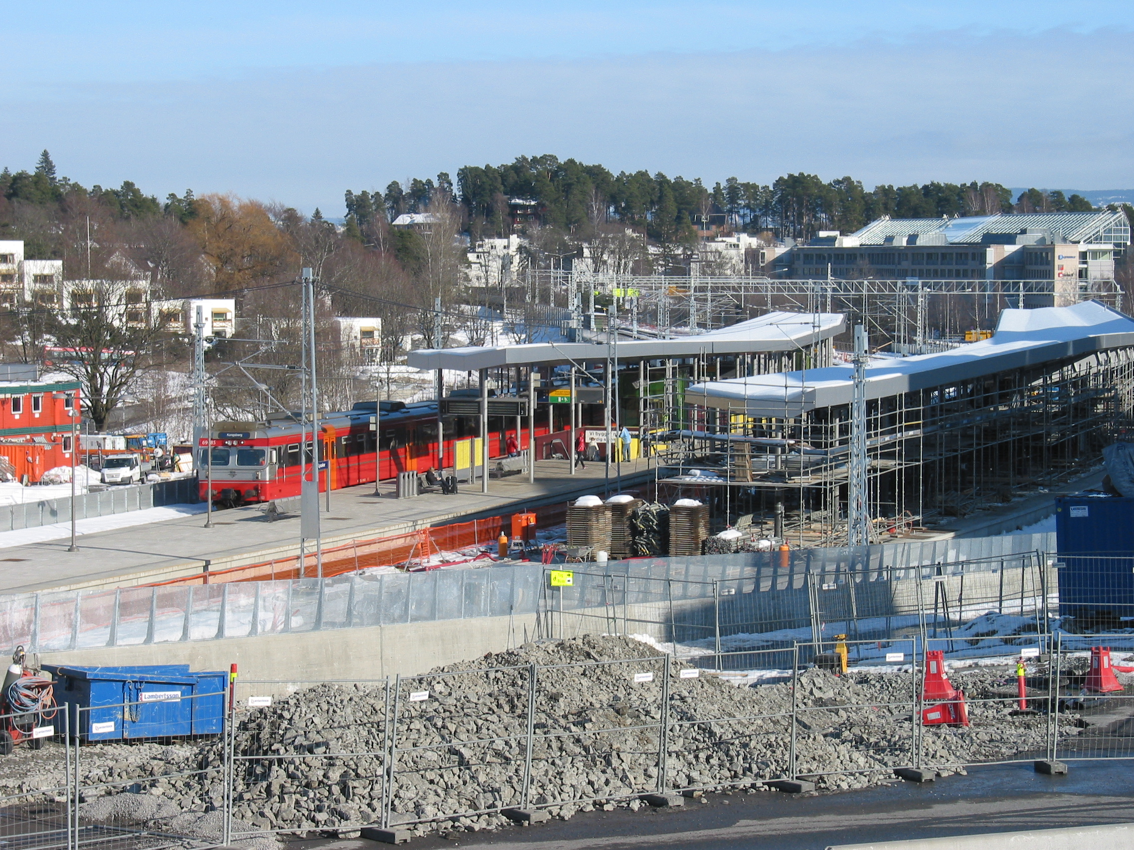 Lysaker Station under construction, March 2009. The left platform is functional, the right plaftorm is not finished, is inaccessible, and lacks the actual rail tracks. The orange buildings to the left are workmen's huts. The buildings in the background, to the right, are corporate headquarters.